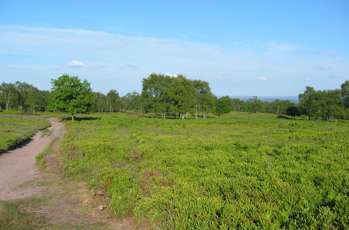 Heathland on the summit of Bickerton Hill, Cheshire. Photograph by T Chalcraft